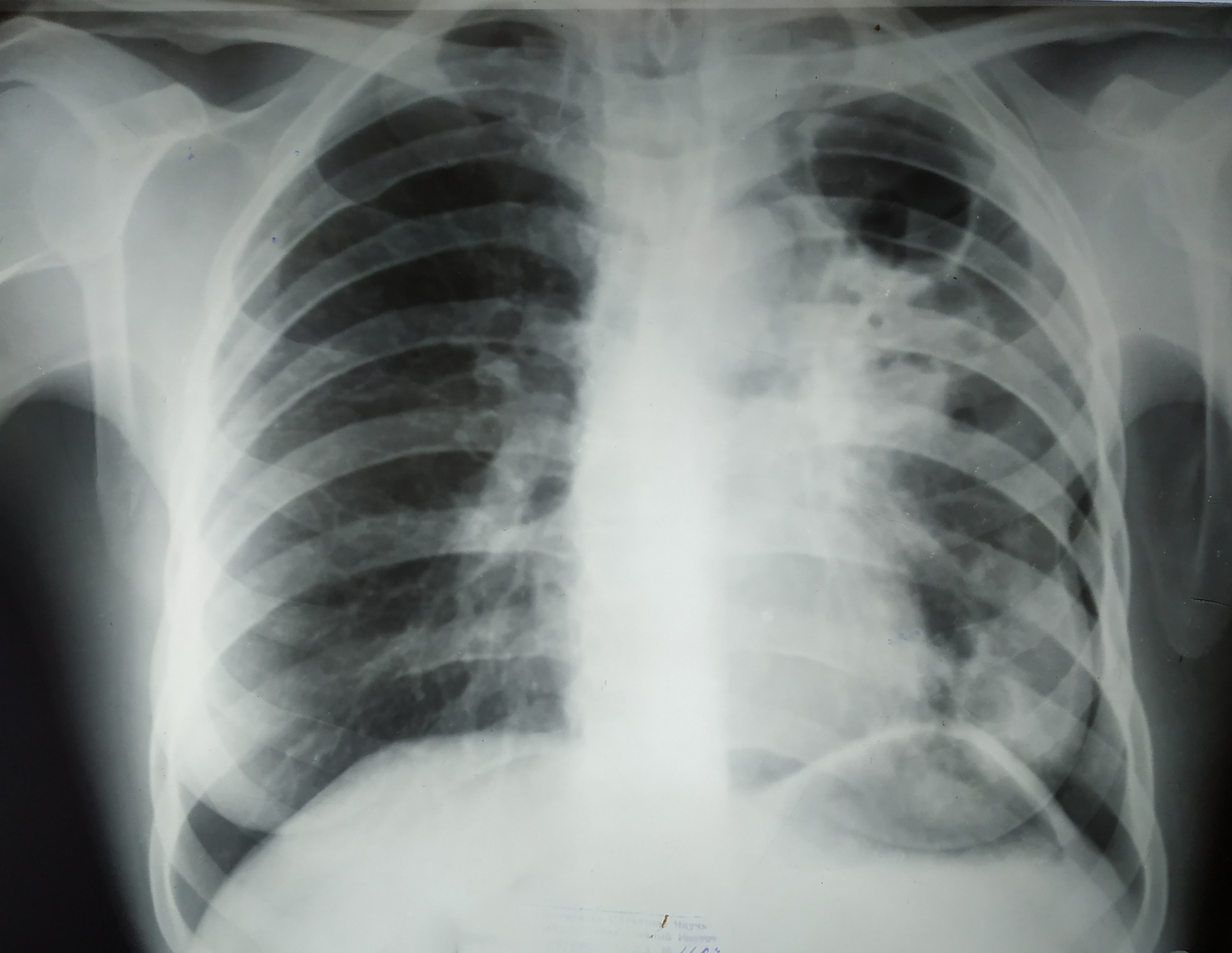 Chest plain film. Fibrotic cavitary Tuberculosis